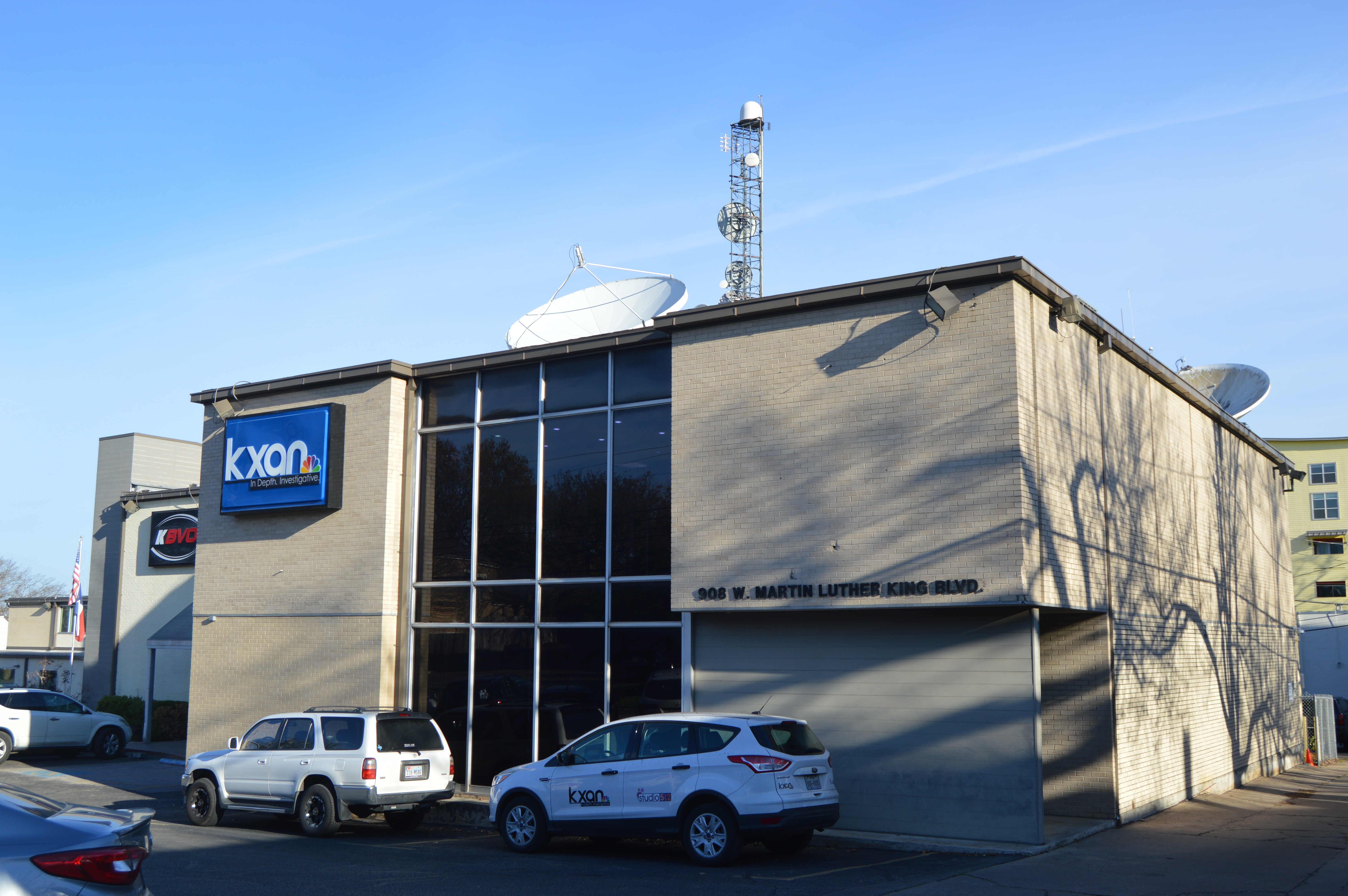 KXAN-TV studios on MLK between Pearl and San Gabriel Streets in Austin, Texas, United States.